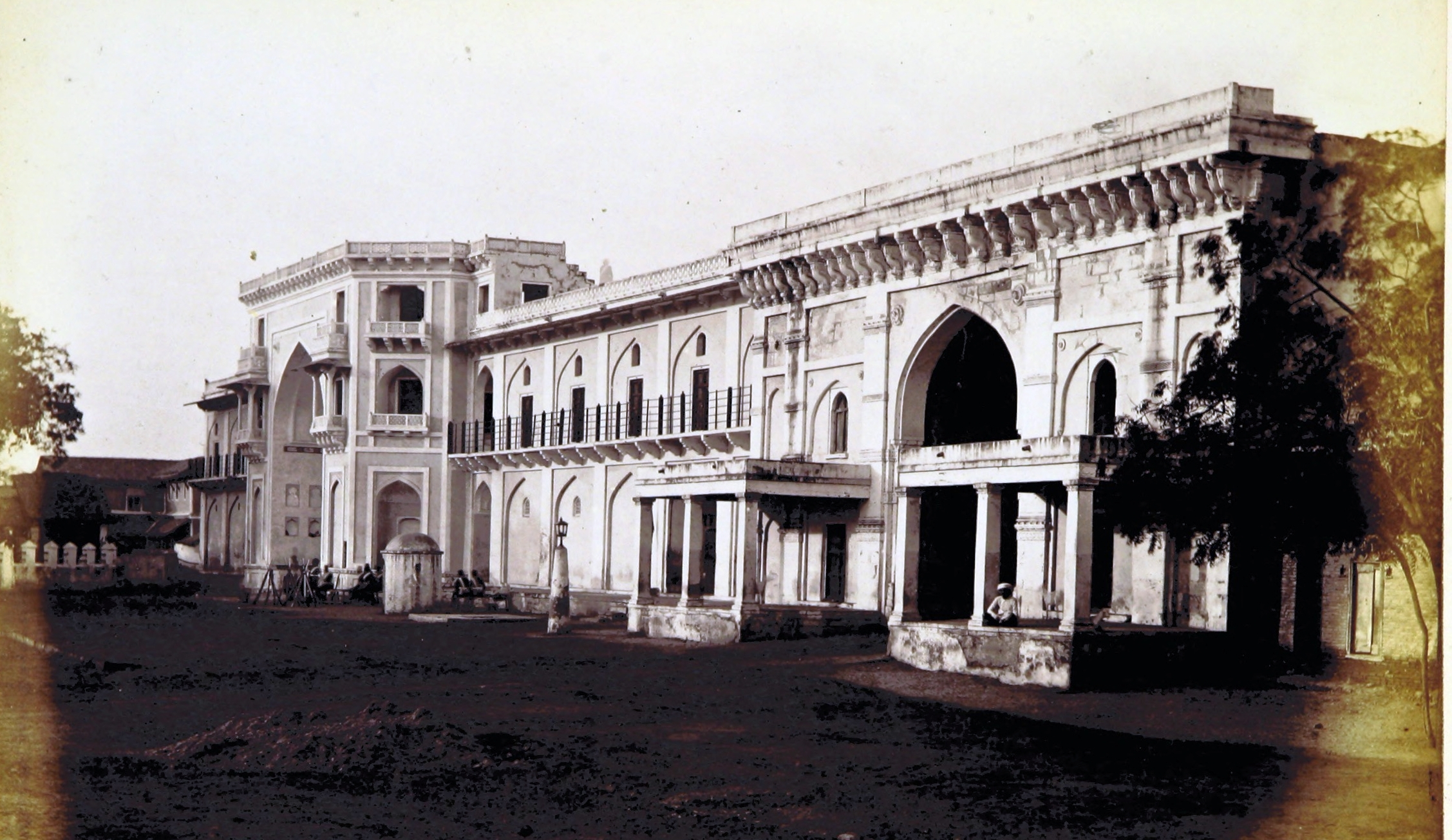 Image taken from: Title: "Architecture at Ahmedabad, the Capital of Goozerat, photographed by Colonel Biggs, ... With an historical and descriptive sketch, by T. C. H., ... and architectural notes by J. Fergusson, etc" Author: HOPE, Theodore Cracraft - Sir, K.C.S.I Contributor: BIGGS, Thomas. Contributor: FERGUSSON, James - Architect Shelfmark: "British Library HMNTS 10057.f.17.", "British Library OC V 6665" Page: 353 Place of Publishing: London Date of Publishing: 1866 Issuance: monographic Identifier: 001730119 Note: The colours, contrast and appearance of these illustrations are unlikely to be true to life. They are derived from scanned images that have been enhanced for machine interpretation and have been altered from their originals. If you wish to purchase a high quality copy of the page that this image is drawn from, please order it here. Please note that you will need to enter details from the above list - such as the shelfmark, the page, the book's volume and so on - when filling out your order. Following this or the link above will take you to the British Library's integrated catalogue. You will be able to download a PDF of the book this image is taken from, as well as view the pages up close with the 'itemViewer'. Click on the 'related items' to search for the electronic version of this work. Click here to see all the illustrations in this book and click here to browse other illustrations published in books in the same year. Please click on the tags shown on the right-hand side for other ways to browse the illustrations.